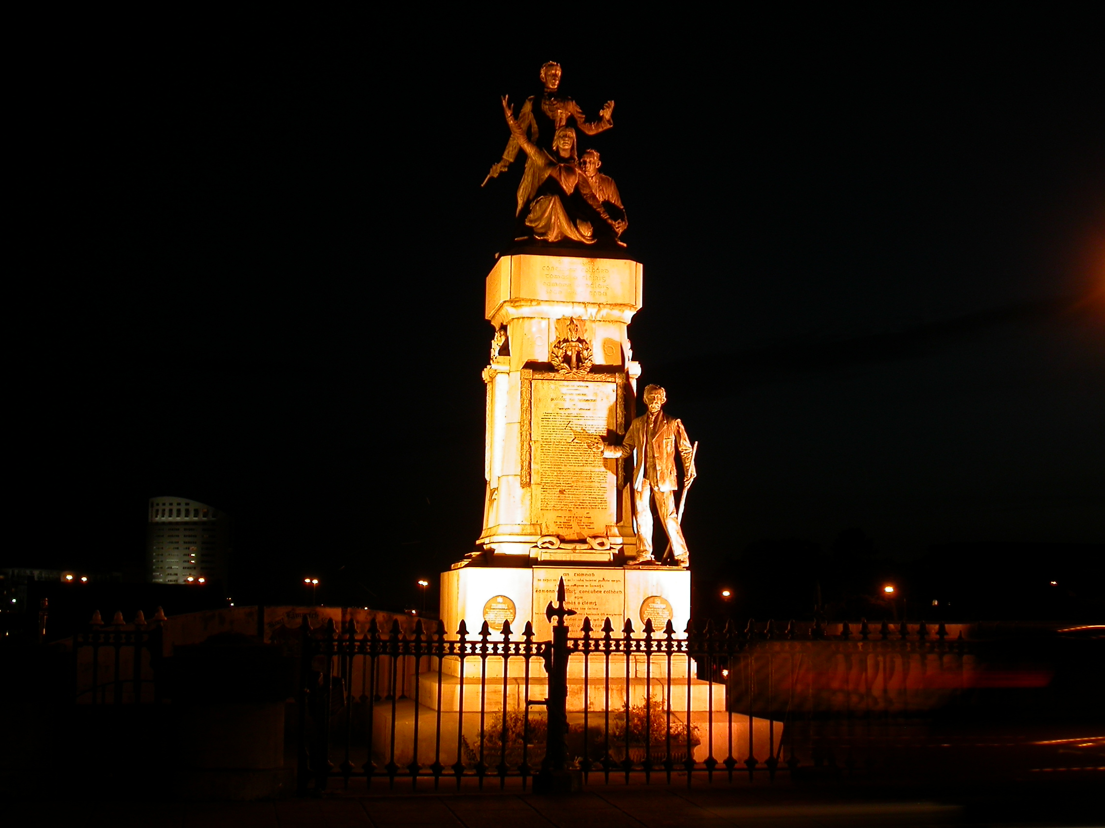 Leacht Cuimhneachain 1916, Luimneach